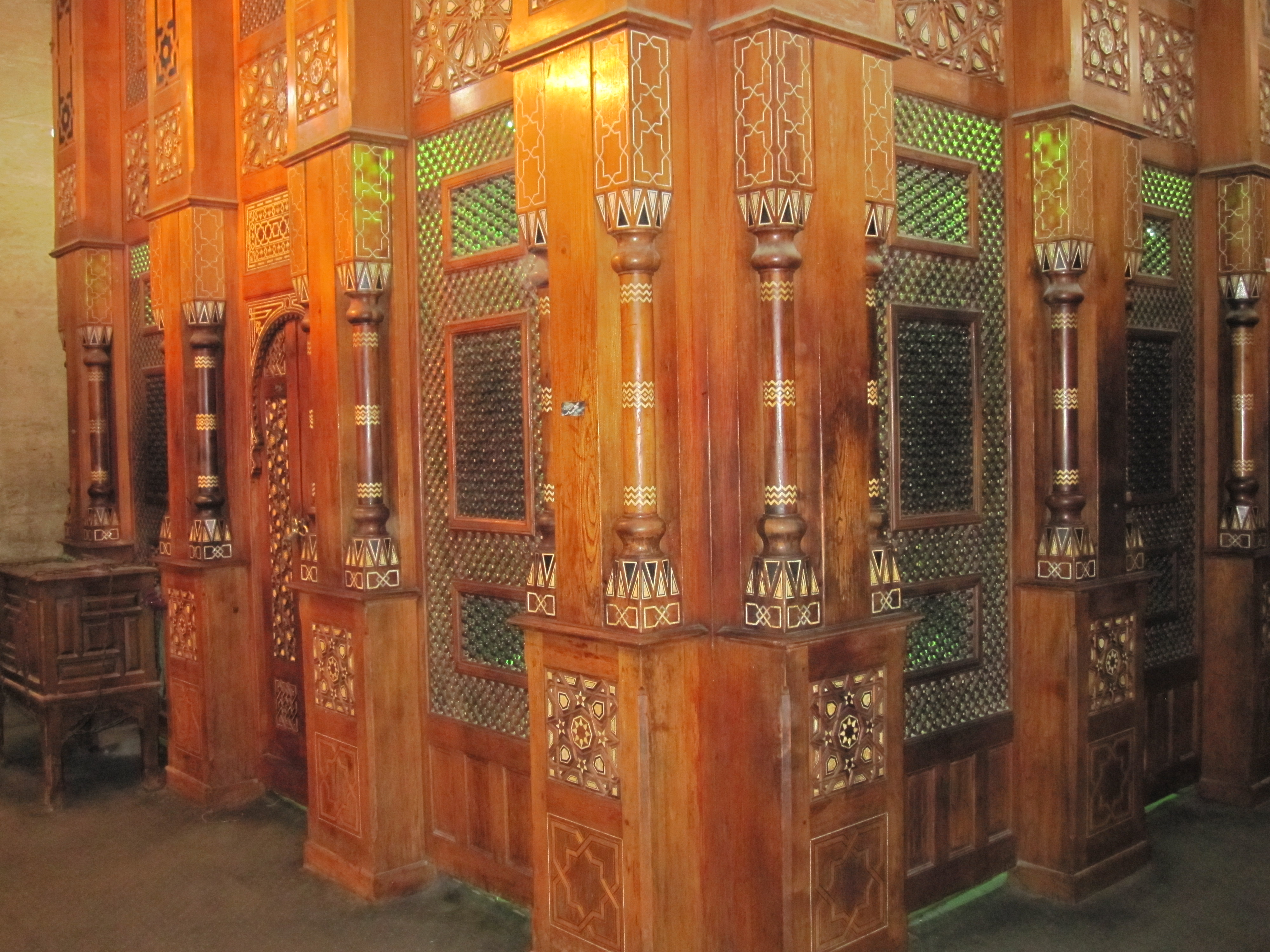 Mausoleum of Sheikh Ali Abu Shibbak al-Rifa'i, located in the Rifa'i Mosque in Cairo, Egypt. Sheikh Ali Abu Shibbak was a medieval Sufi Muslim "saint", and the grandson of the founder of the Rifa'i order, Sheikh Ahmad al-Rifa'i (1106–1182). The site of the current mosque was originally occupied by a zawya containing the tombs of Sheikh Ali Abu Shibbak and other sheikhs. The zawya was demolished and replaced by the current mosque in the 19th century by order of Khushiyar Kadin, the mother of Khedive Isma'il Pasha of Egypt.